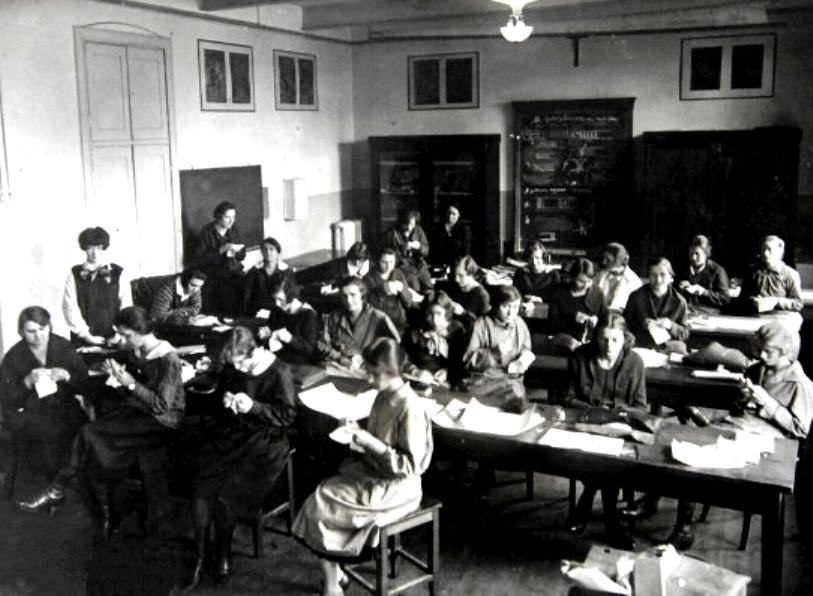 Radom Members of the Women's League repairing clothing for legionnaires (1916)